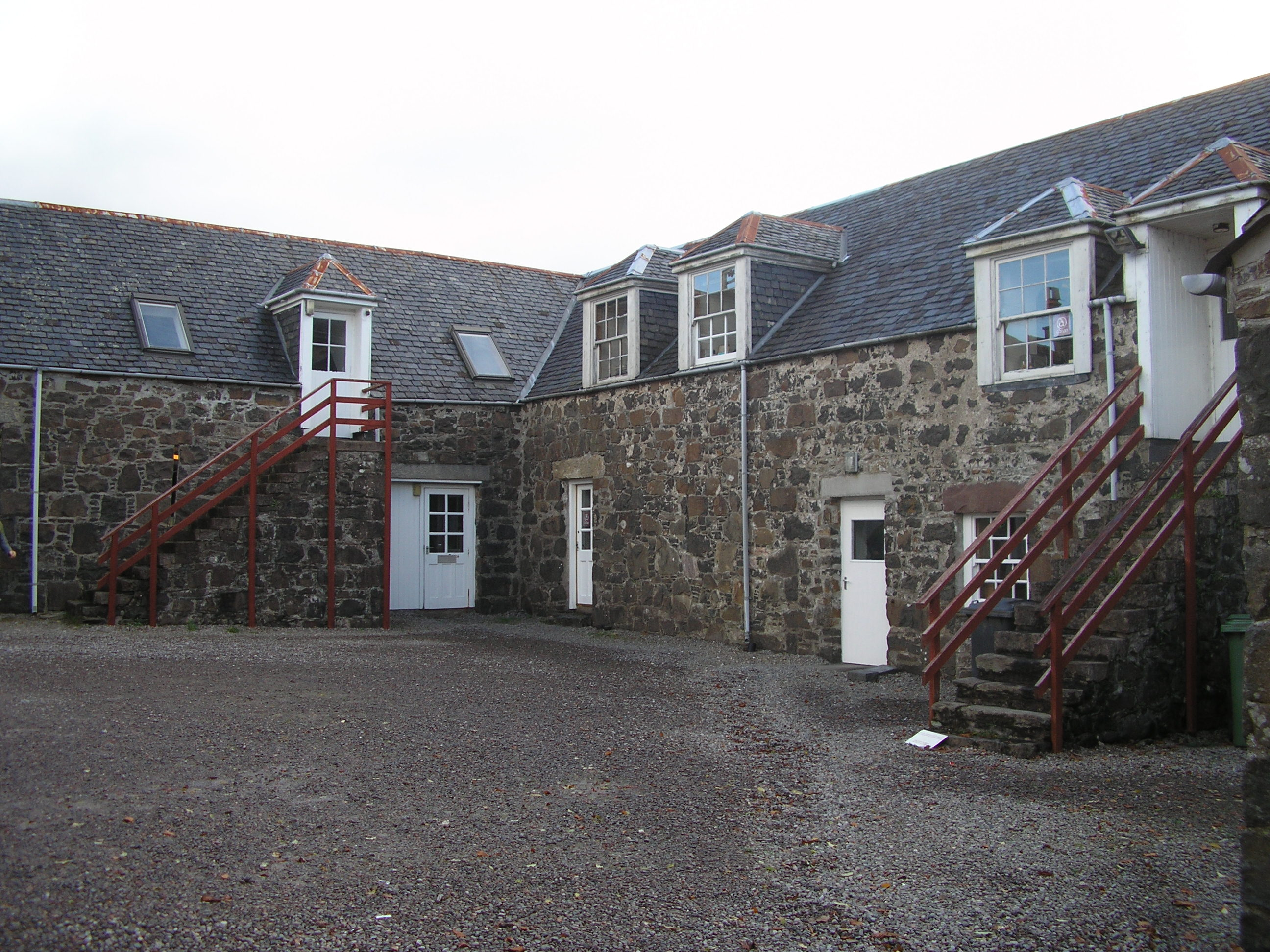 Part of the courtyard at Sabhal Mor Ostaig Skye, Scotland